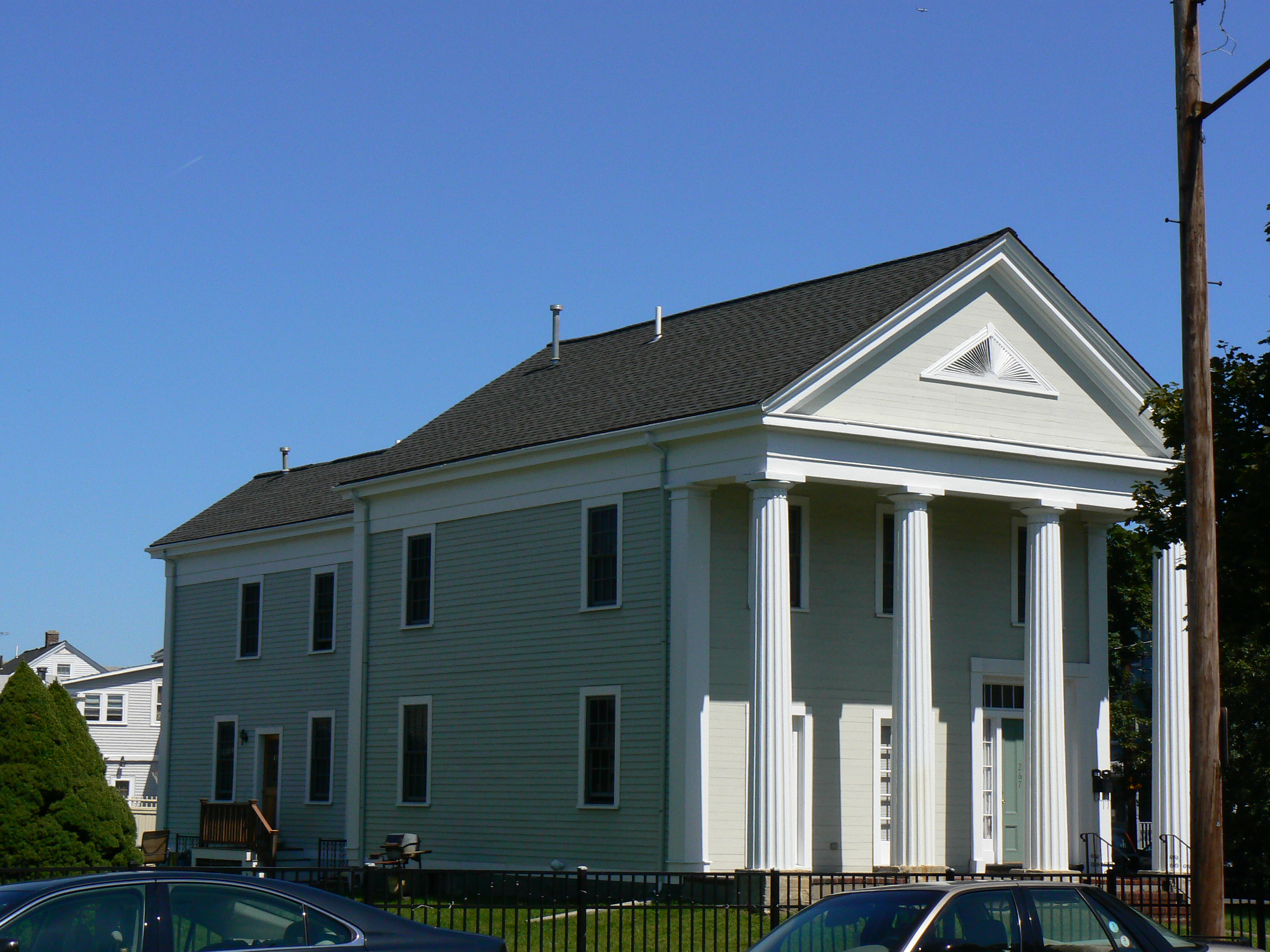 A photograph of the Whittemore House, a historic structure in Arlington.